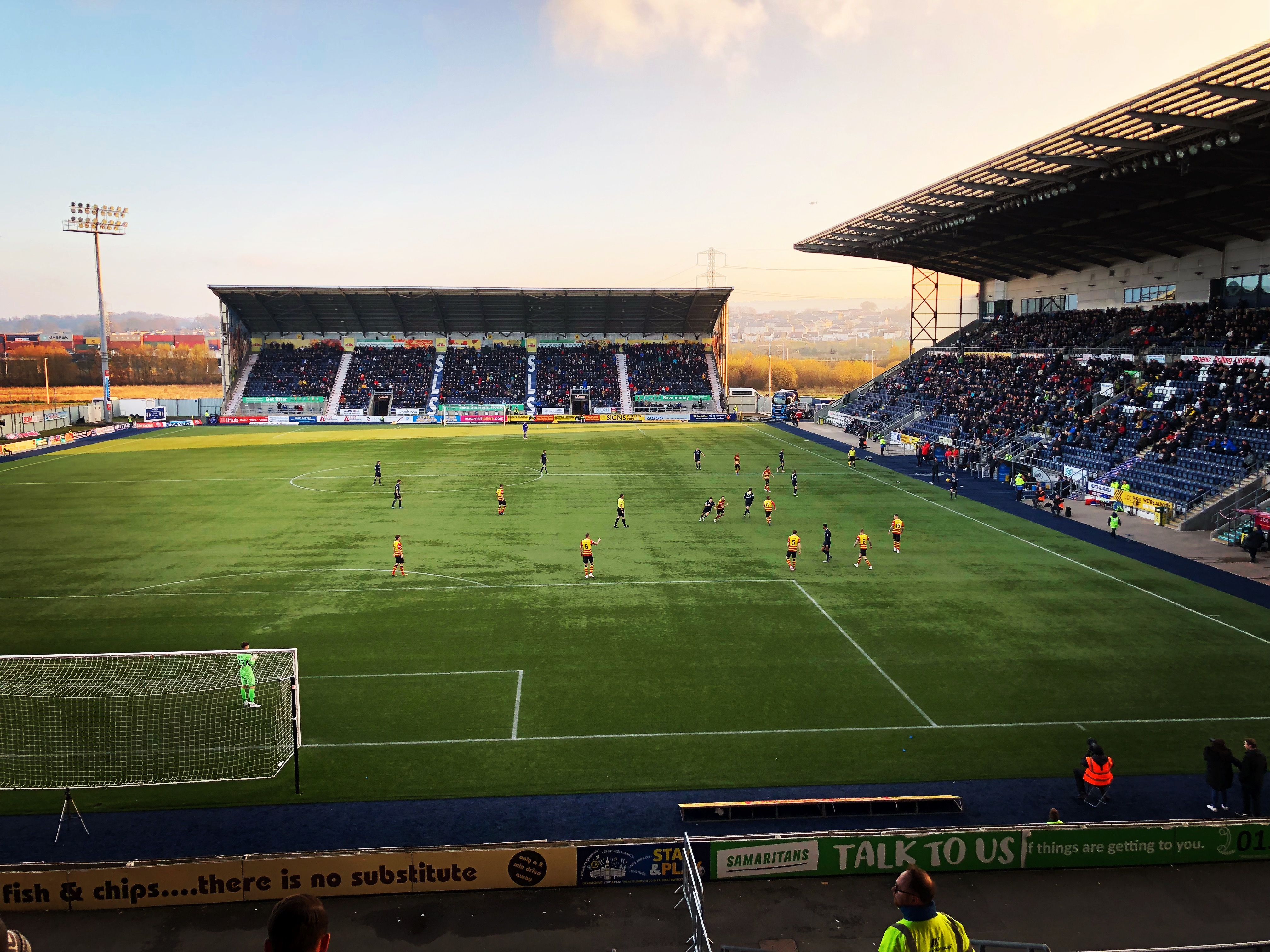 Image of Falkirk vs Partick Thistle at the Falkirk Stadium 2018.